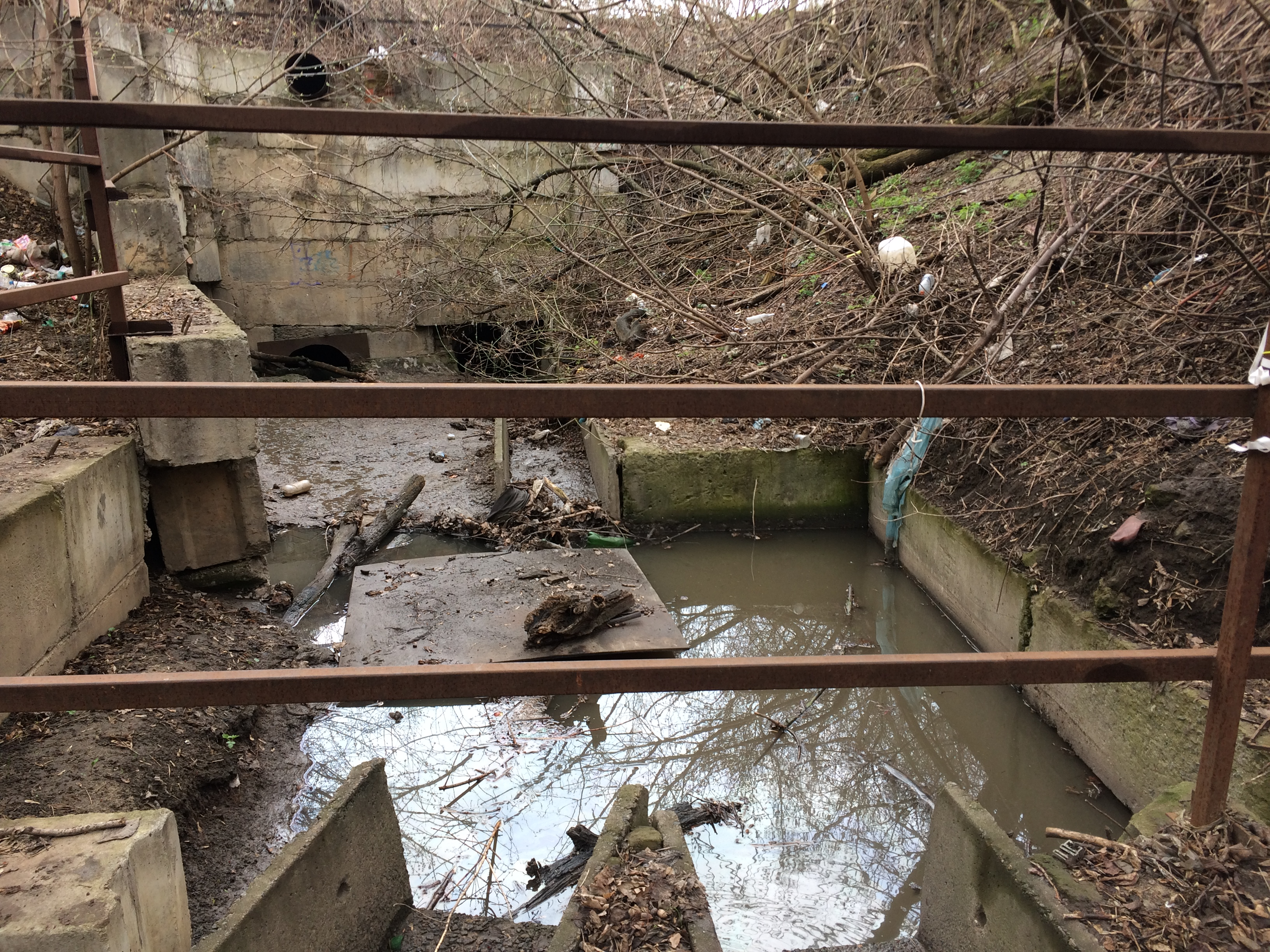 Коллектор открытого типа